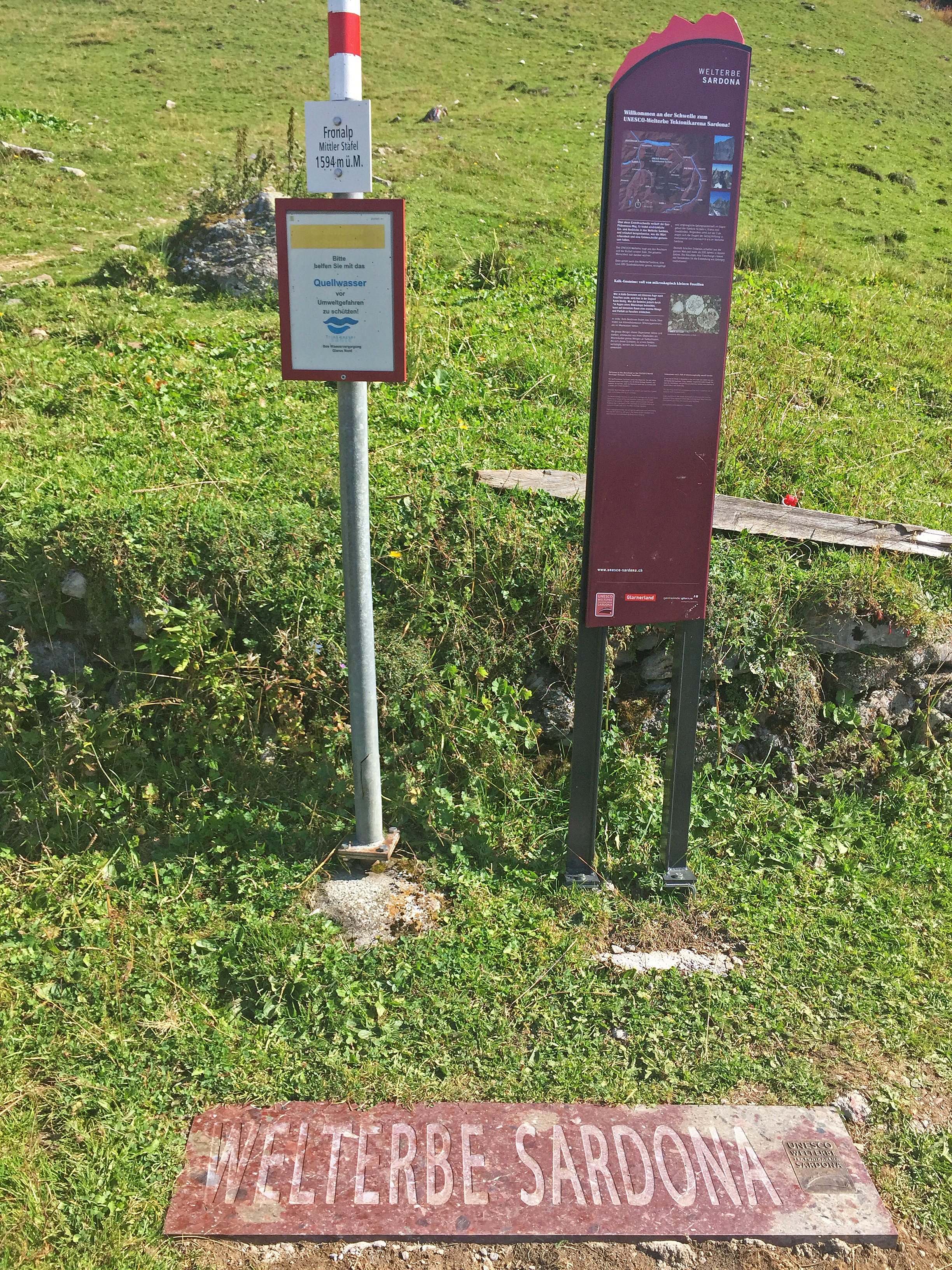 Informational sign of World Heritage Site Sardona in Switzerland at Mittler Stafel close to Fronalpstock